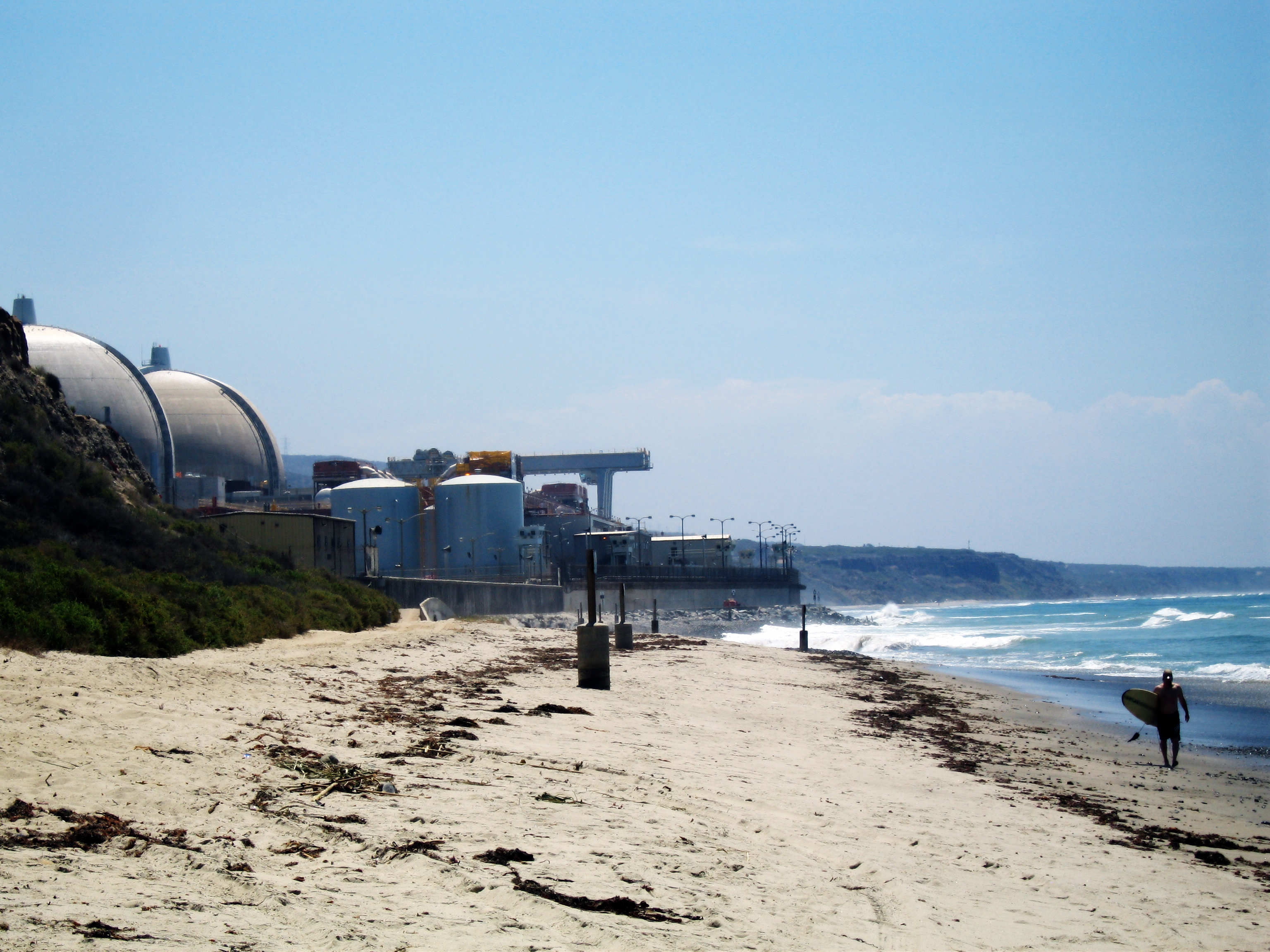 San Onofre Nuclear Generating Station (SONGS) in San Diego County, California, as seen from San Onofre Surf Beach to the north. SONGS divides San Onofre State Beach, with San Onofre Bluffs to the south and San Onofre Surf Beach to the north.